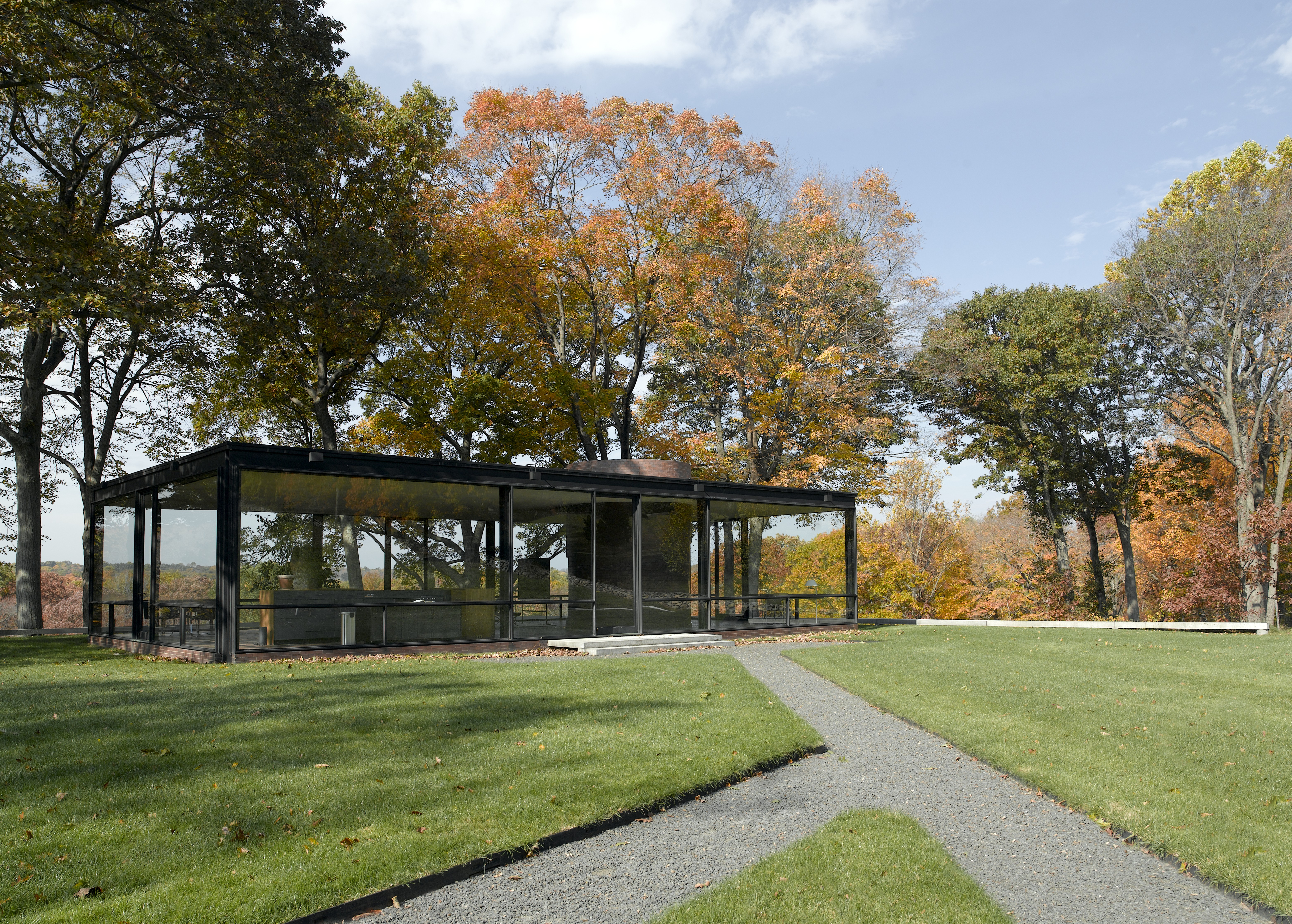 Glass House (aka Johnson house) in New Canaan, Connecticut, US. Designed by Philip Johnson, 1949.